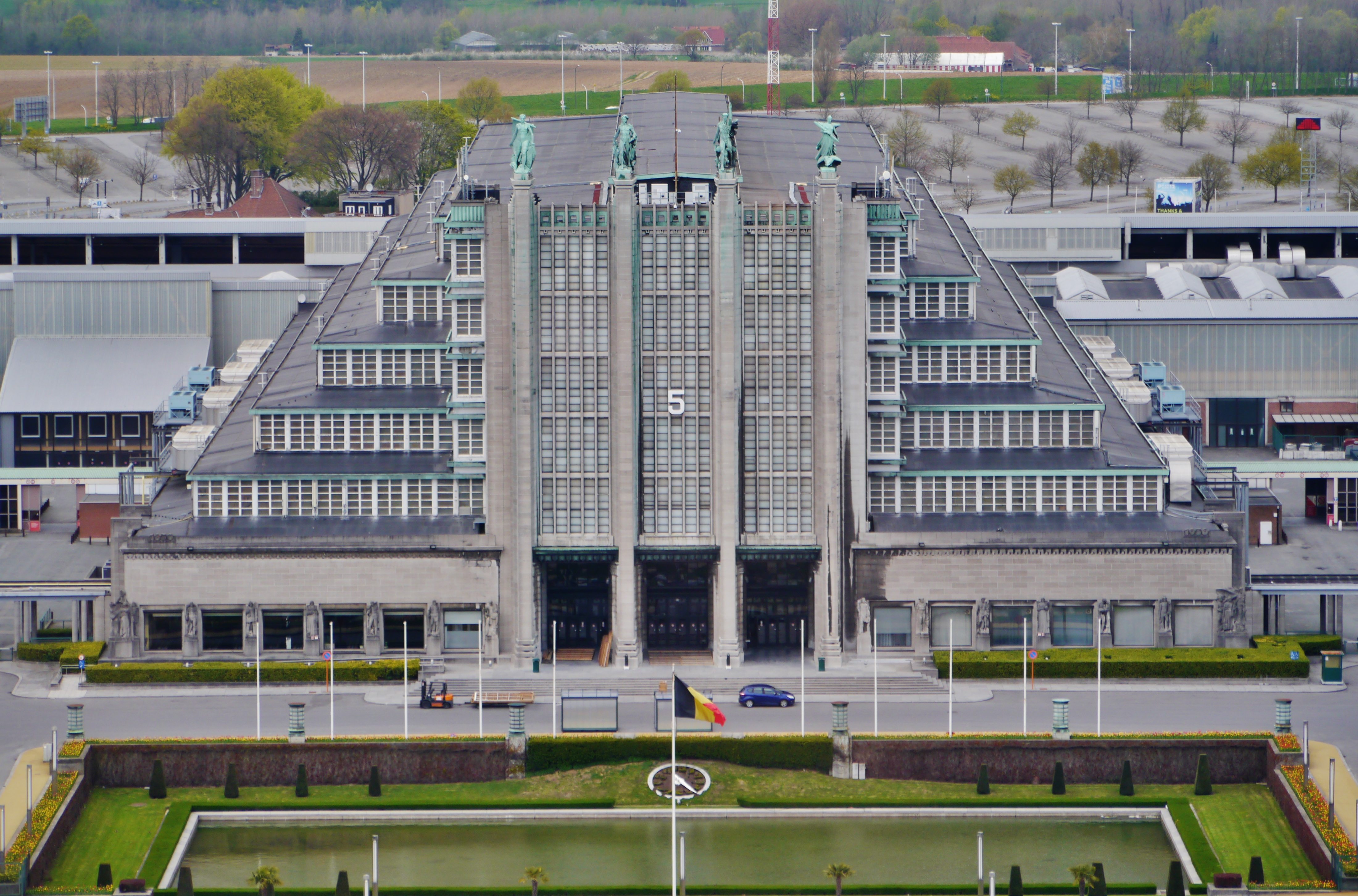 View from the Atomium to the Heizel Palais, Brussels, District of Laeken, Region of Brussels, Belgium